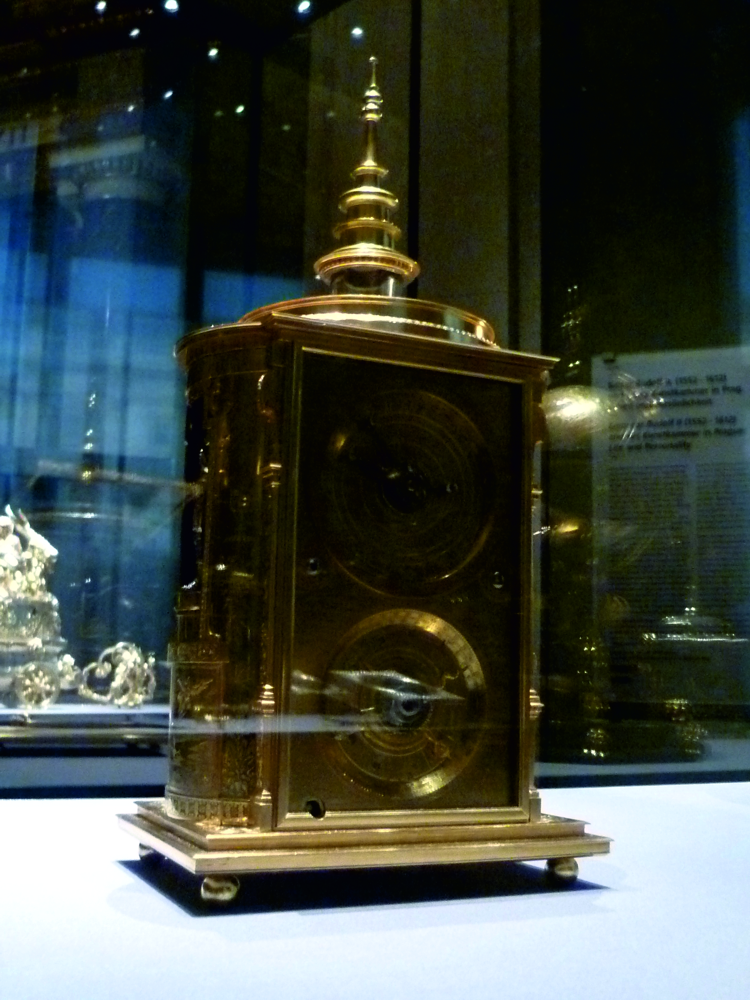 The Vienna Planetary Clock build by Jost Bürgi, 1600 or 1605